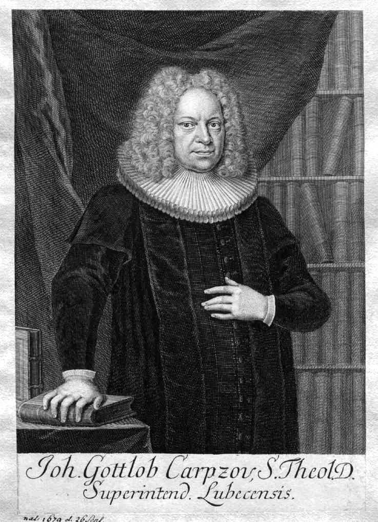 Johann Gottlob Carpzov (1679-1767)